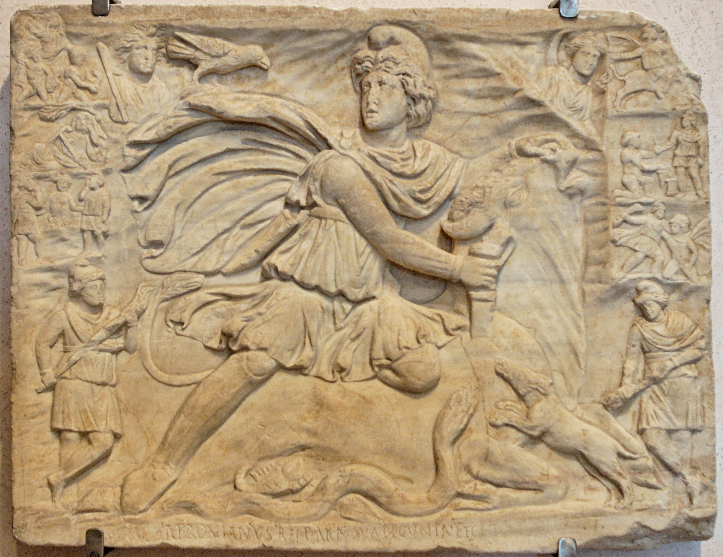 Tauroctony: Mithras killing the sacred bull. Dedicated by a public slave named Apronianus, treasurer of the municipality of Nersae. Marble, 172 CE. From the Mithraeum of Nersae (now Nesce, in the Province of Rieti).